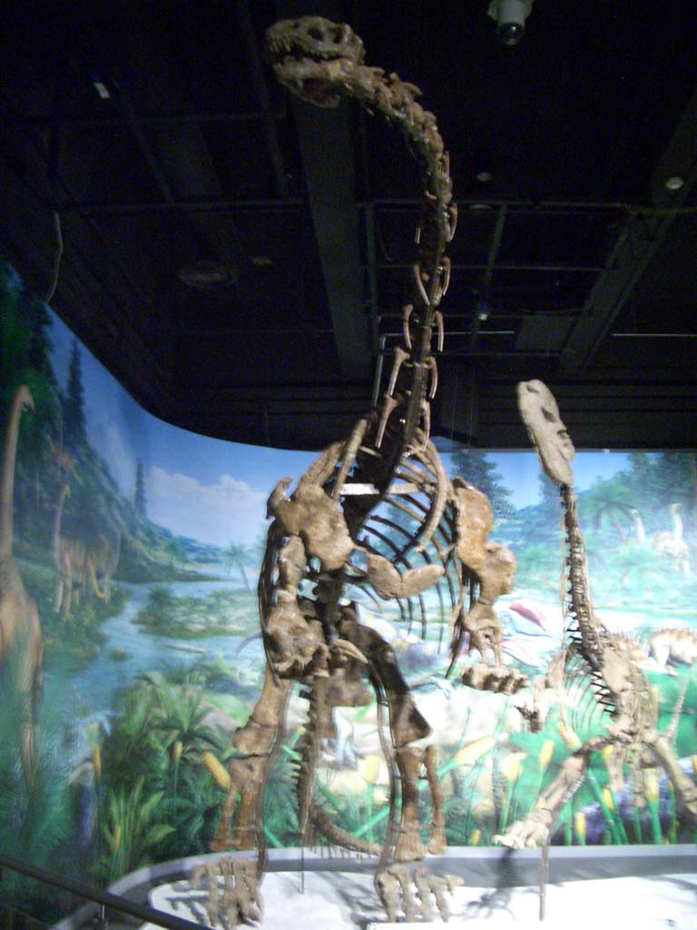 Jingshanosaurus xinwaensis and Dilophosaurus sinensis skeletons displayed in Hong Kong Science Museum